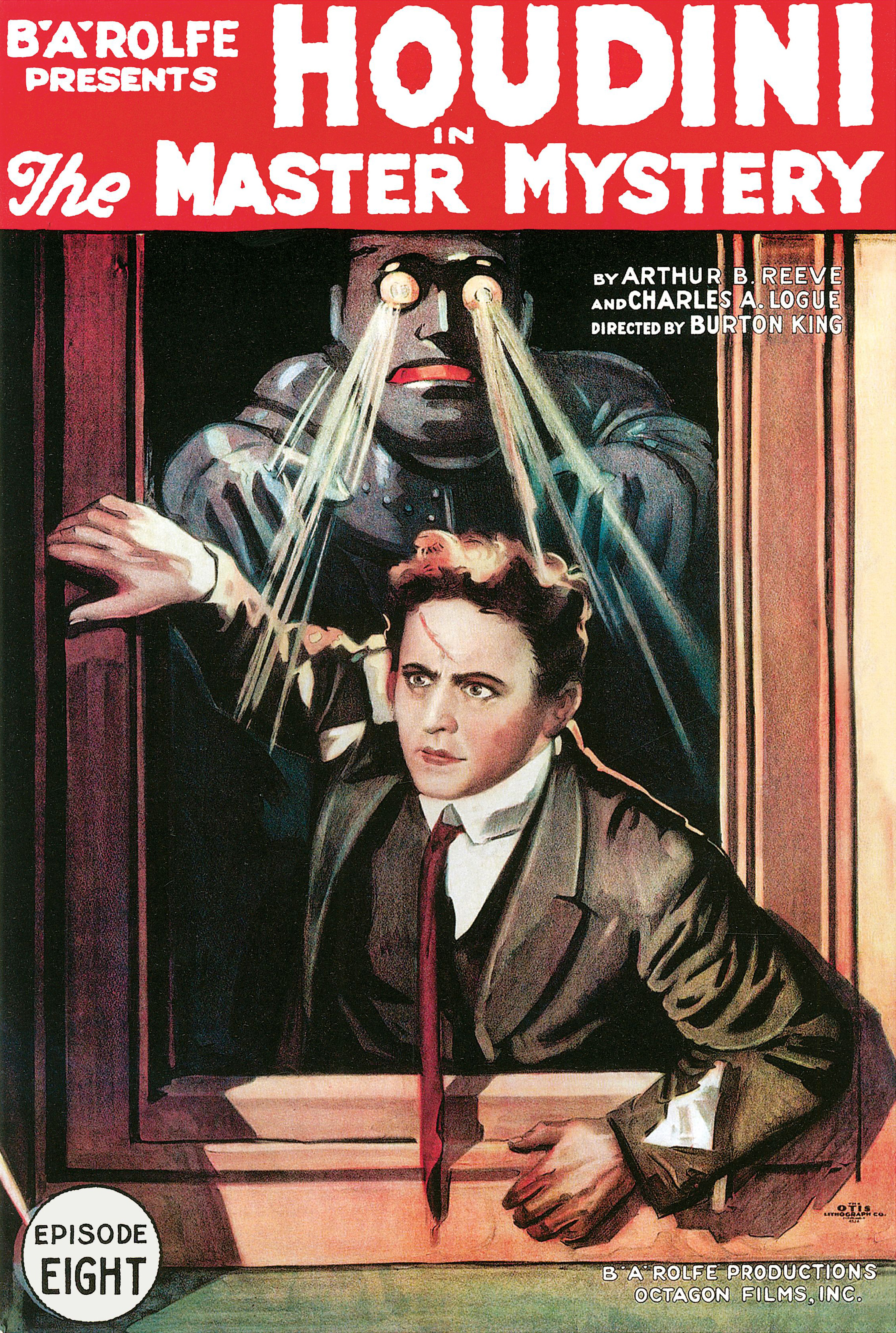 Movie poster for episode 8 of the film serial The Master Mystery (1919) with Harry Houdini.